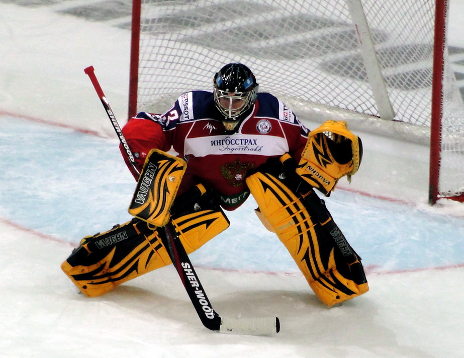 Vasiliy Koshechkin